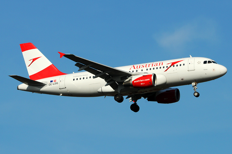 Austrian Airlines Airbus A319-100 in new colors OE-LDG